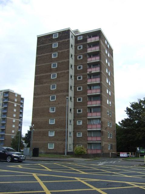 Tower block, Huddersfield (by 2016 this and the blue block had been demolished while the green block had been refurbished Mtaylor848 (talk) 21:20, 14 August 2019 (UTC))